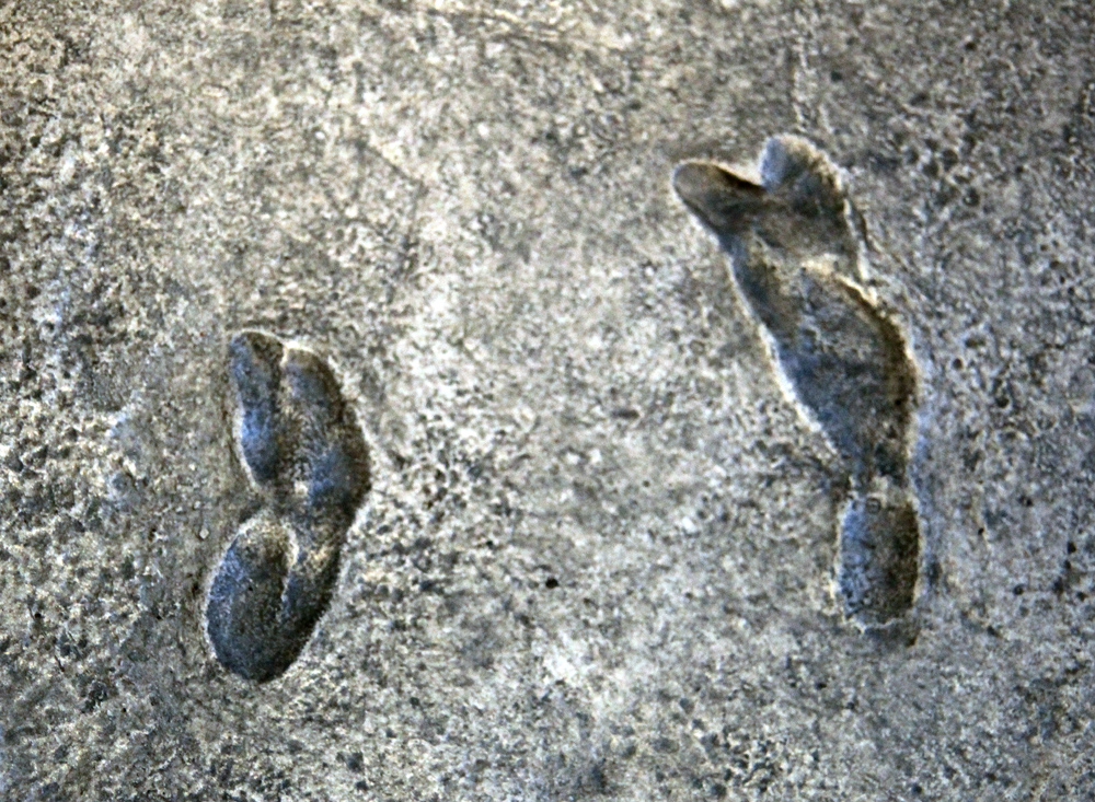 Cast of the "Laetoli footprints" -- the earliest known human footprints in the world, on display in the Hall of Human Origins in the Smithsonian Museum of Natural History in Washington, D.C. These footprints are those of Australopithecus afarensis. The entire footprint trail is 88 feet long and includes impressions left by two individuals. They were made 3.6 million years ago in Laetoli, Tanzania, when A. afarensis walked through wet volcanic ash. Paleontologist Mary Leakey found them in 1976, but they were not identified until Paul Abell did so in 1978. There are 70 footprints in total.